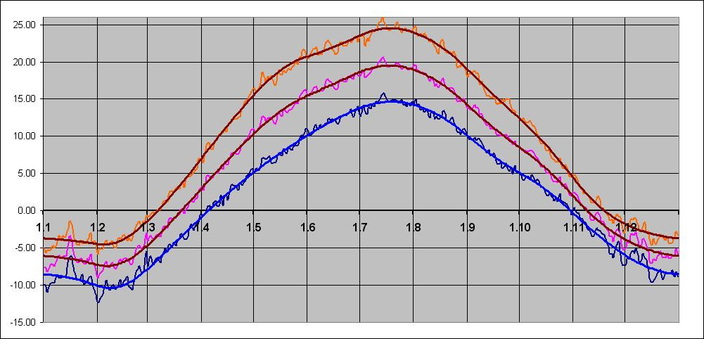 Moscow year temperature graph